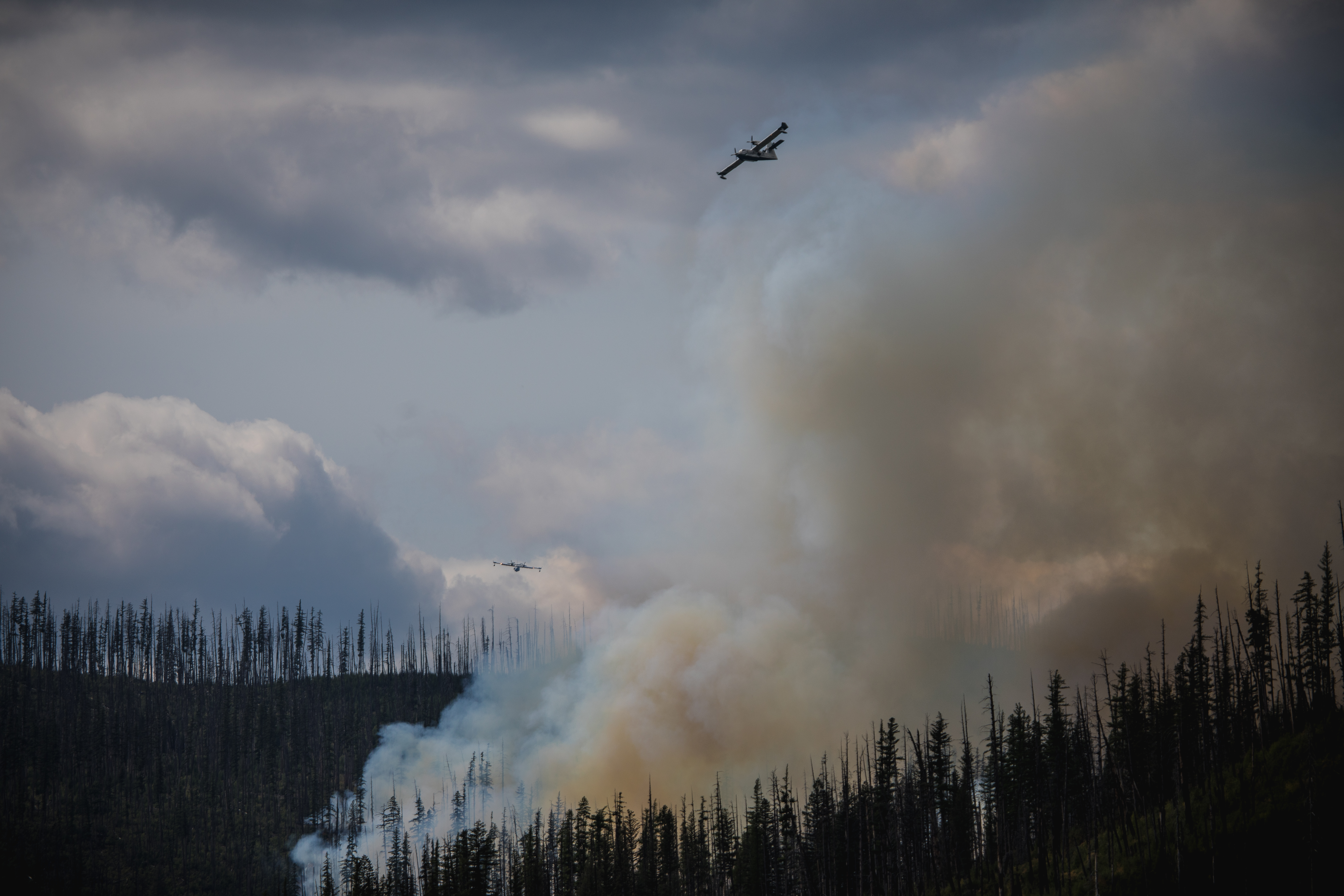 Airplane dropping water on the Howe Ridge fire, Glacier National Park, USA August 12, 2018